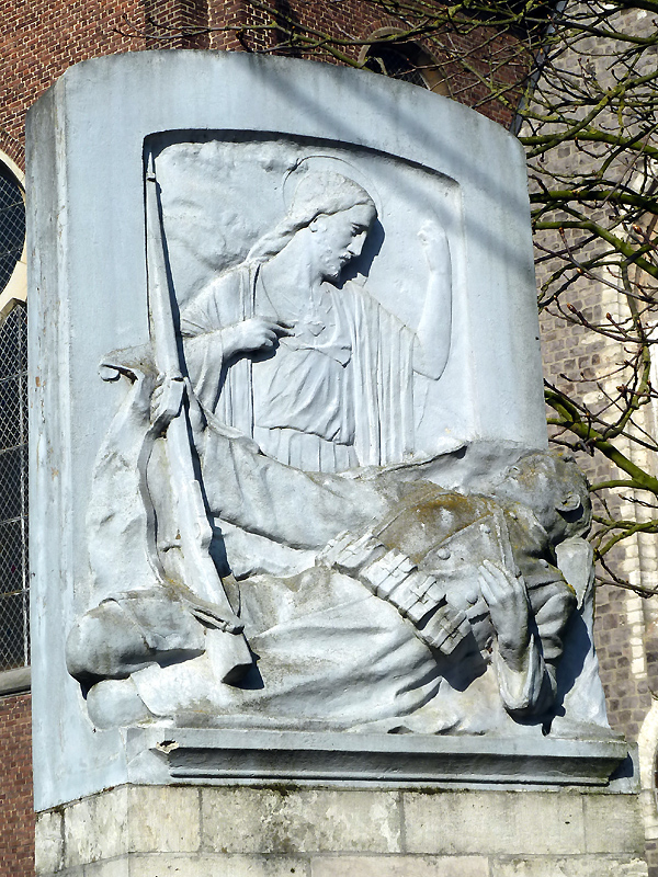 WW1 Monument in Neerlinter (Belgium) Nedersaksies: Monument Wereldoorlog I in Neerlinter, gemaakt door Eugeen Arnauts